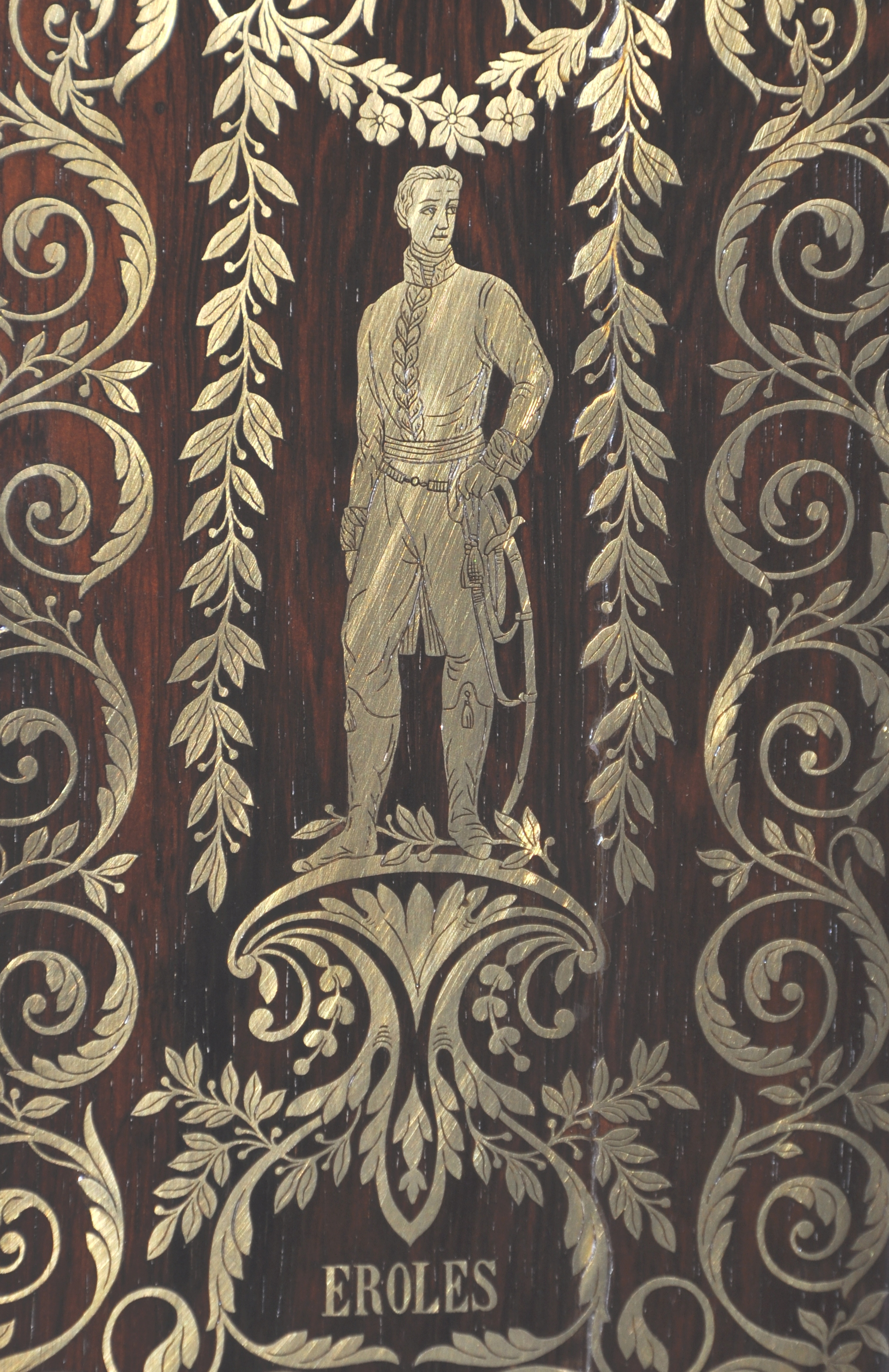 Joaquín Ibáñez Cuevas y de Valonga, Baron de Eroles Detail of a furniture piece decorated with scenes of the Peninsular war (1866) Museu d'Història de Barcelona MUHBA